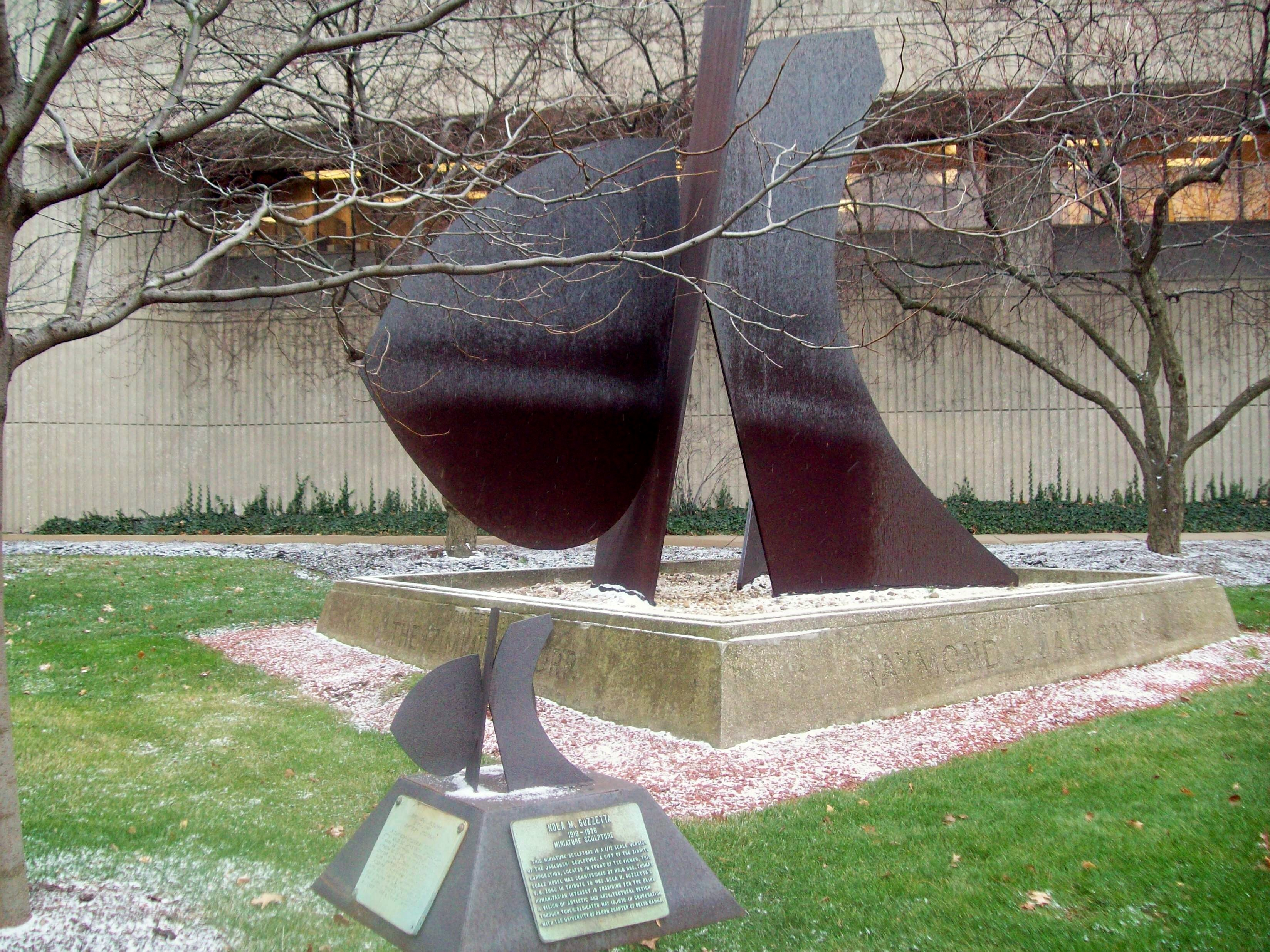 Nolan N. Guzzetta Sculpture, and Miniature Sculpture by Ray Jablonski, sculptor.